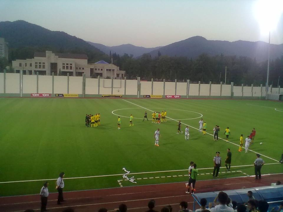 Zaqatala City Stadium in 2014